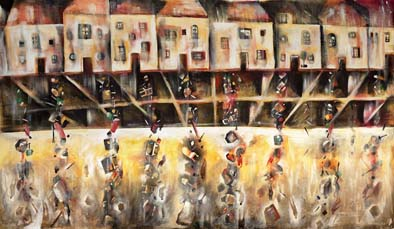 Suburb 2 from Project 4 by David Breuer-Weil